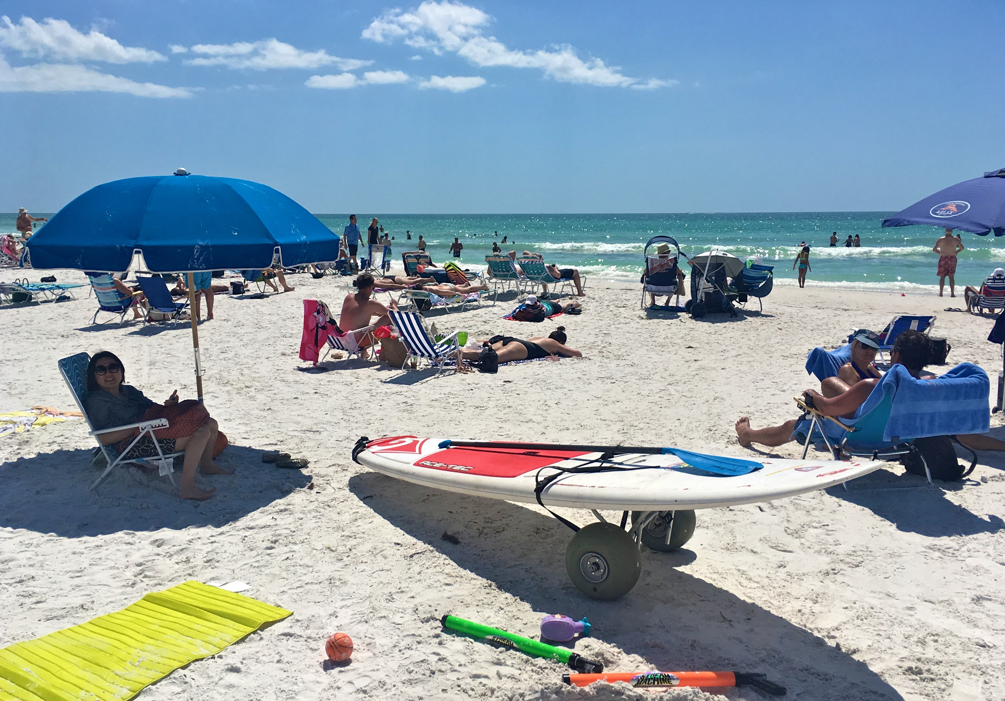 A standup paddleboard and paddle at Crescent Beach on Siesta Key